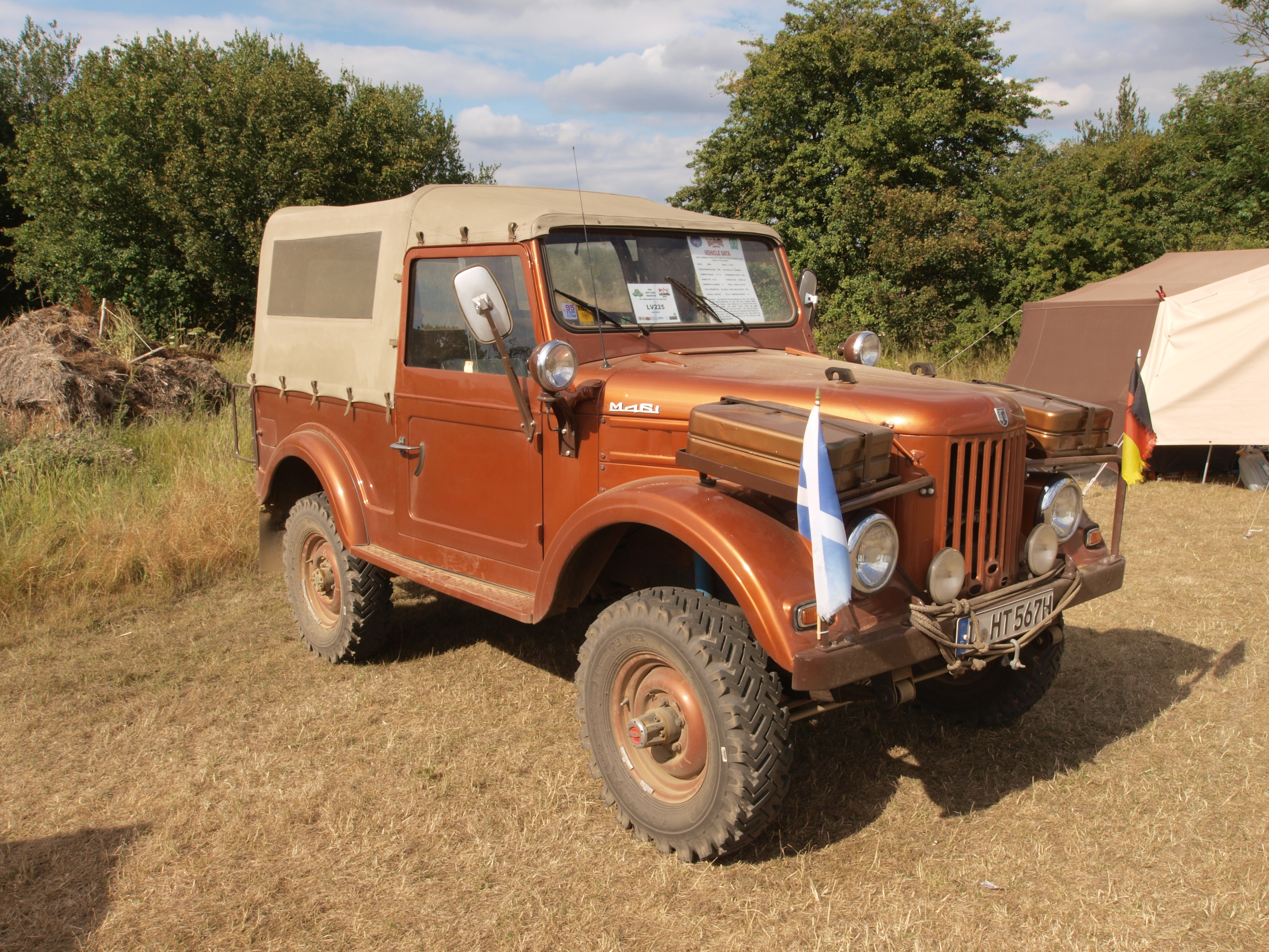 ARO M461 (1961) Romania (owner Dirk baumbach)